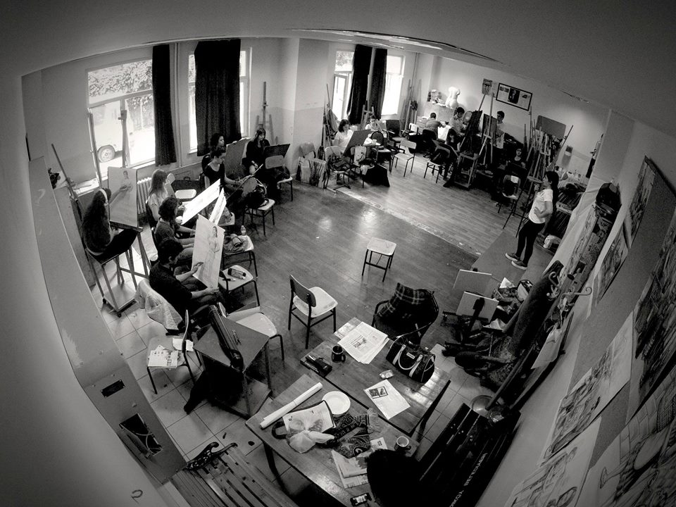 Okul Atölyesi